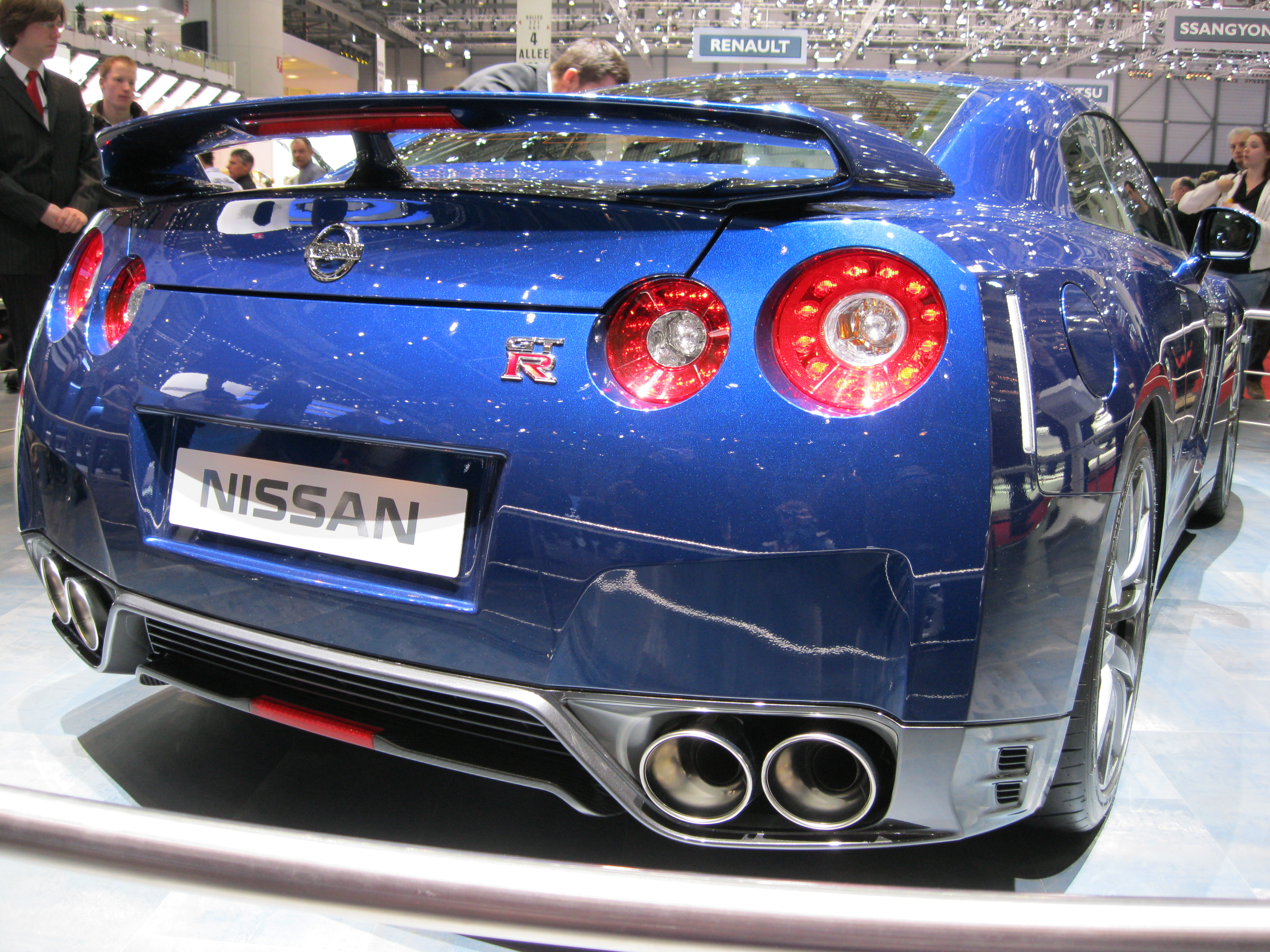 A Nissan GT-R exposed at the 86th Geneva Motor Show in 2011.